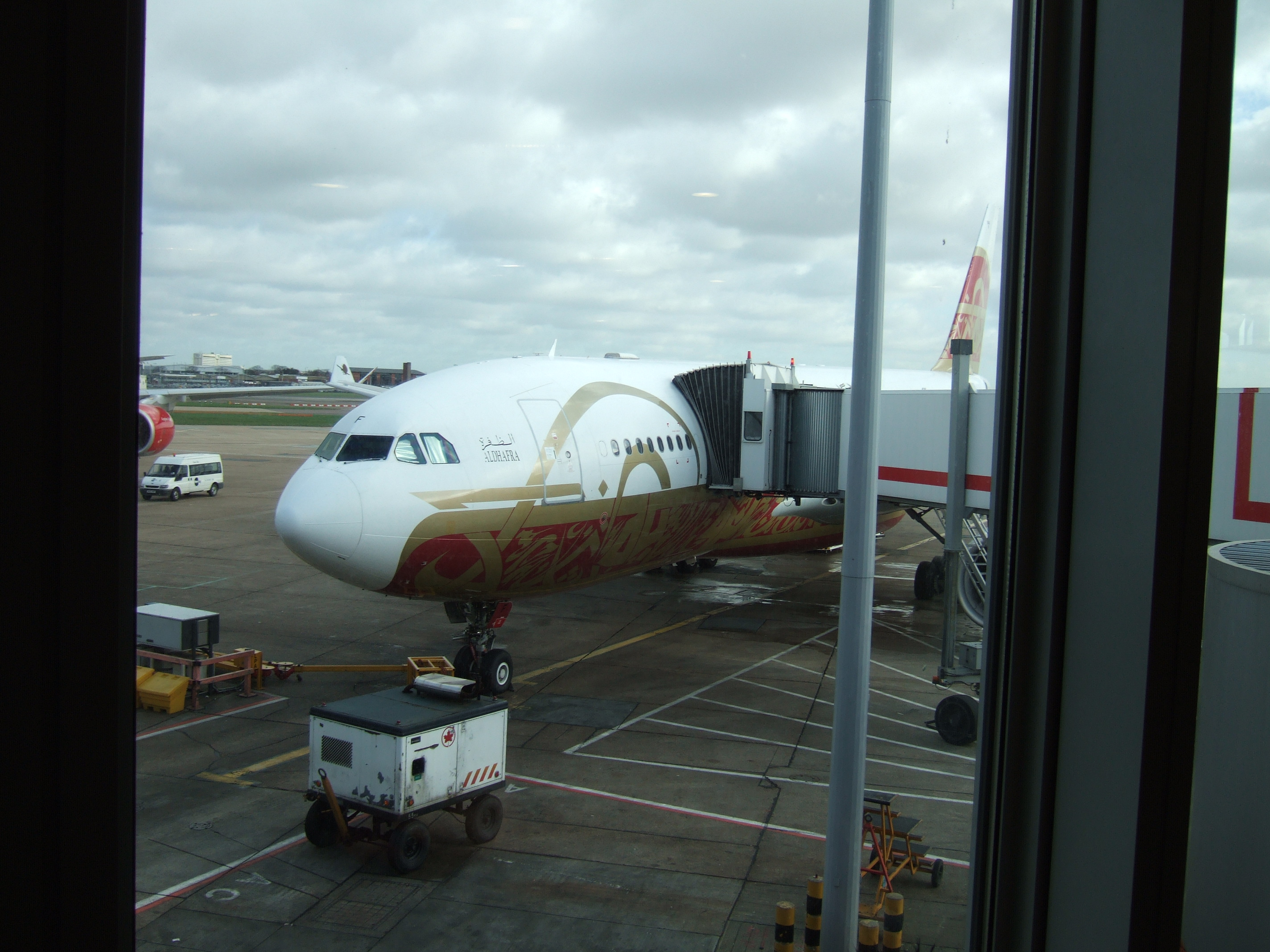 Heathrow